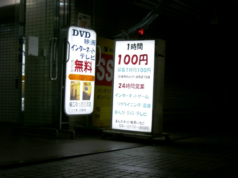 Internet_cafe Tokyo japan